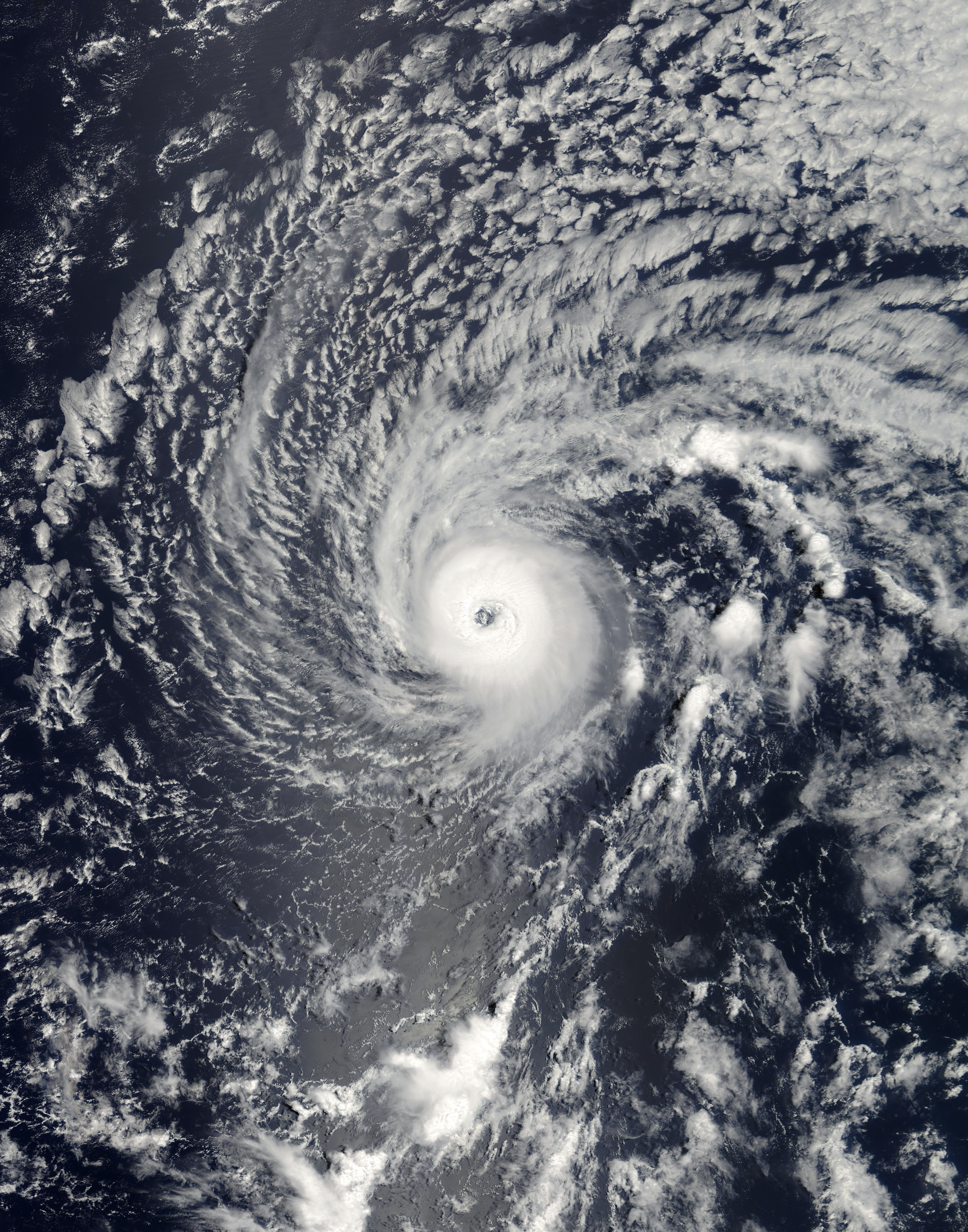 Hurricane Jimena on August 30, 2003